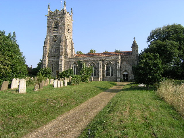 Parish church of SS Peter and Paul, Wangford, Suffolk, seen from the south